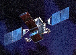 SPACE BASED INFRARED SYSTEMS (SBIRS) SBIRS High features a mix of four geosynchronous earth orbit (GEO) satellites, two highly elliptical earth orbit (HEO) payloads, and associated ground hardware and software. SBIRS High will have both improved sensor flexibility and sensitivity. Sensors will cover short-wave infrared like its predecessor, expanded mid-wave infrared and see-to-the-ground bands allowing it to perform a broader set of missions as compared to DSP. Currently in the engineering, manufacturing, and development phase, the first SBIRS High HEO payload is scheduled for delivery in 2003 and the first GEO satellite is expected to launch in 2006